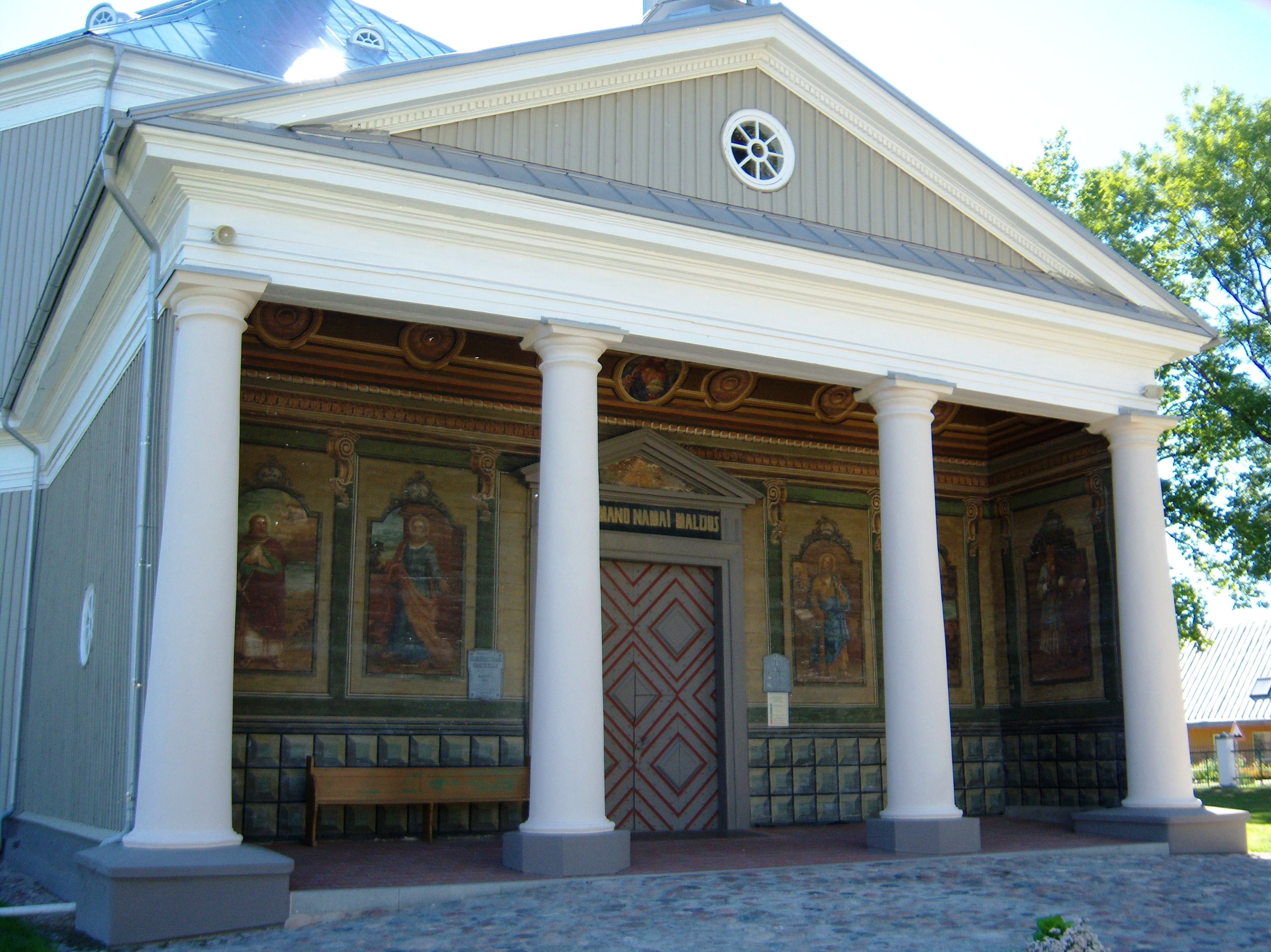 Catholic church in Griškabūdis, Šakiai District, Lithuania